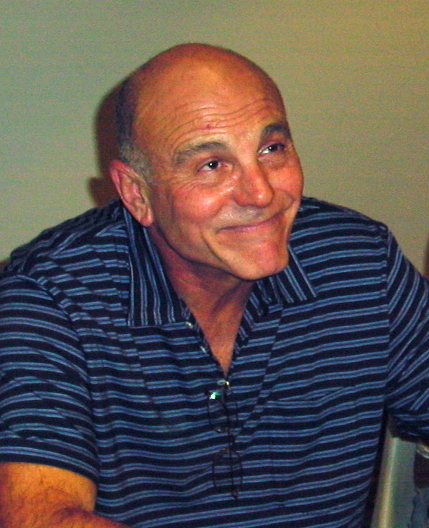 Actor Carmen Argenziano at DragonCon 2005 in Atlanta.